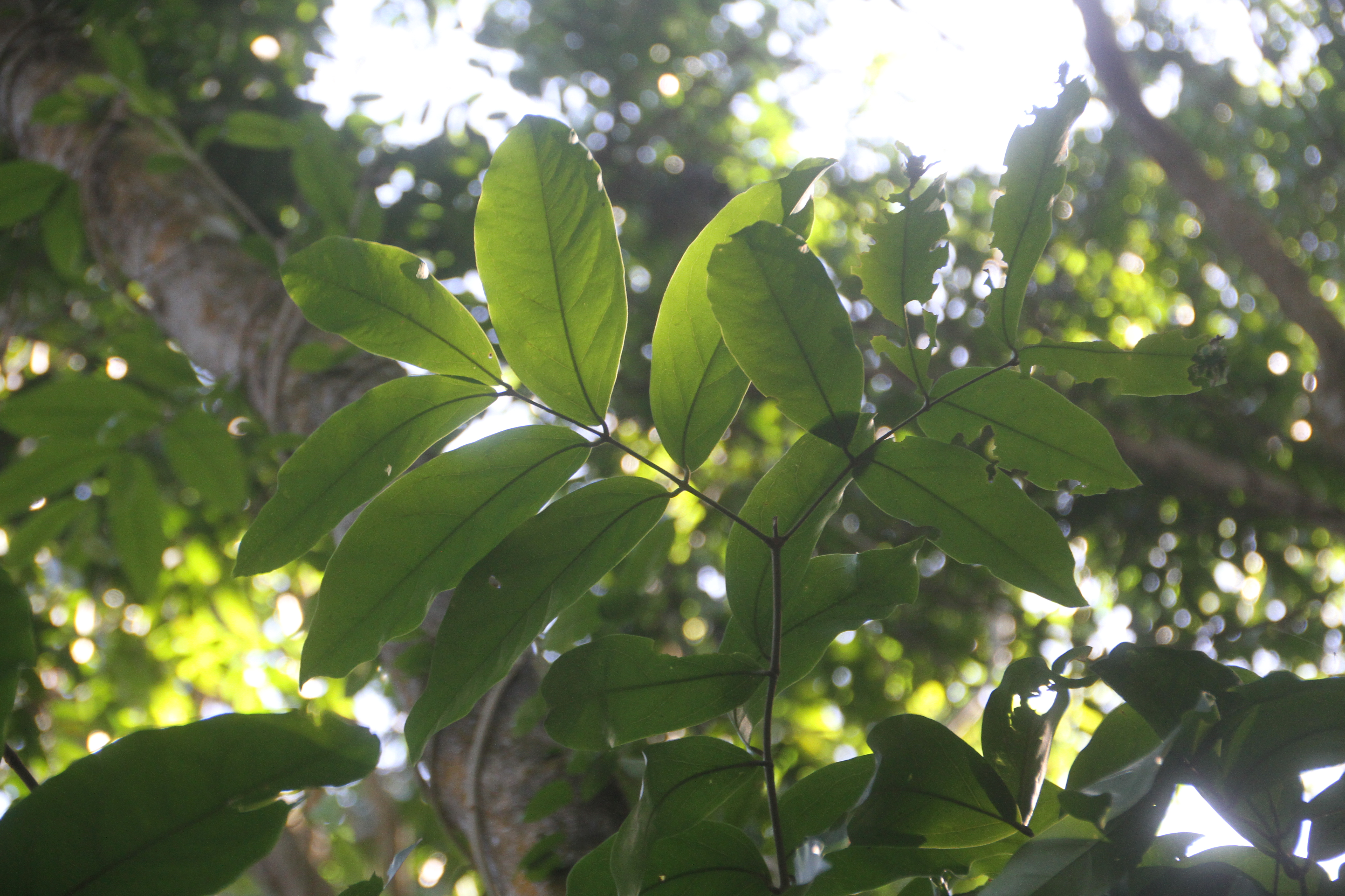 Pterocarpus officinalis, an endemic tree to Puerto Rico, here in the Pterocarpus Forest in the area of Palmas del Mar. Eastern Puerto Rico.